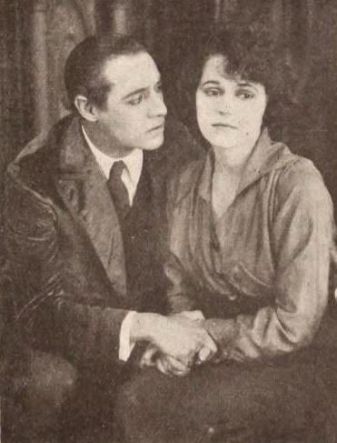 Still from the American film Woman and Wife (1918) with Elliott Dexter and Alice Brady, on page 18 of the February 9, 1918 Exhibitors Herald.